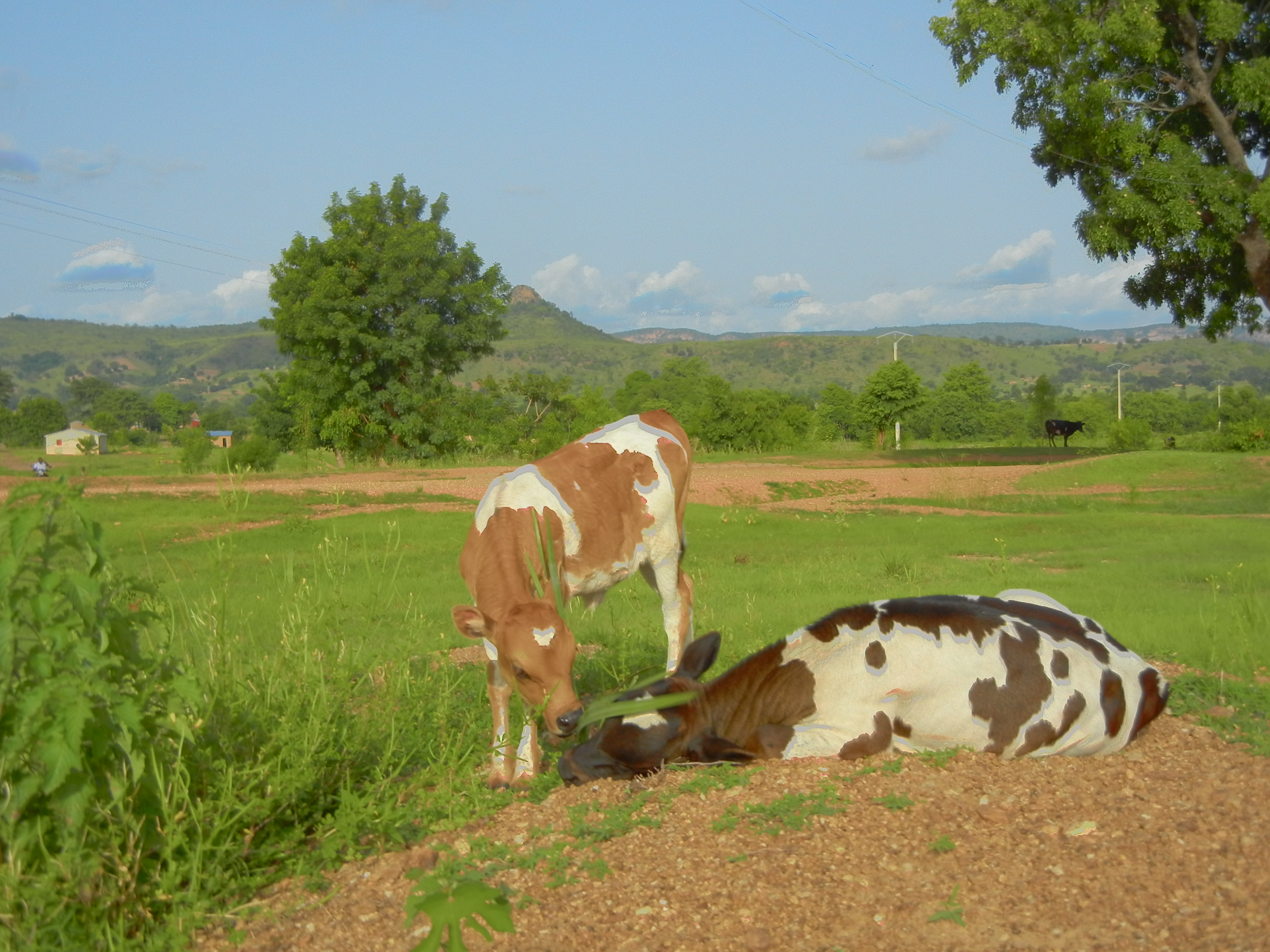 Oxen, behind, it is a valley of Natitingou